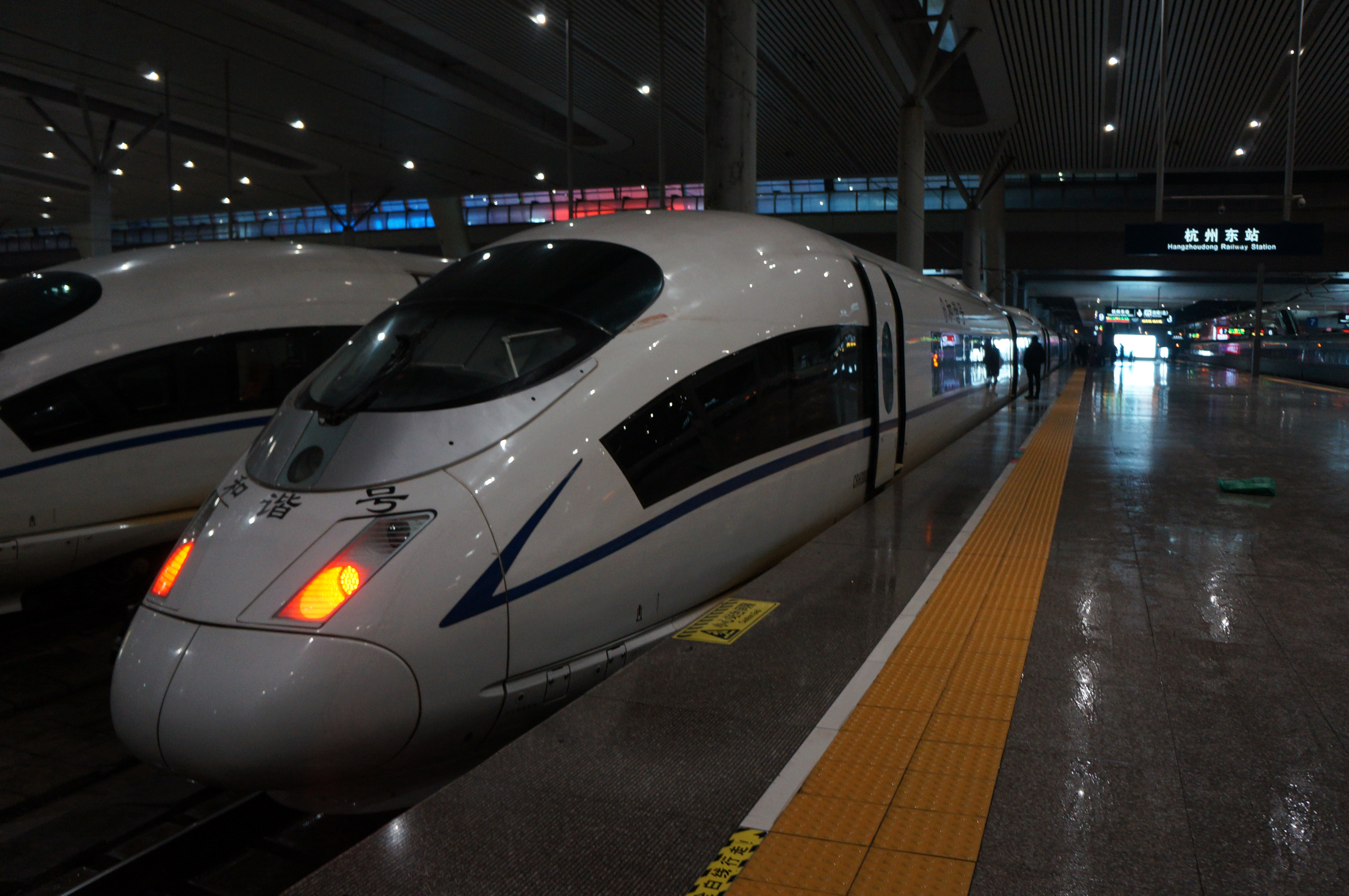 G45 from Beijingnan to Jiangshan